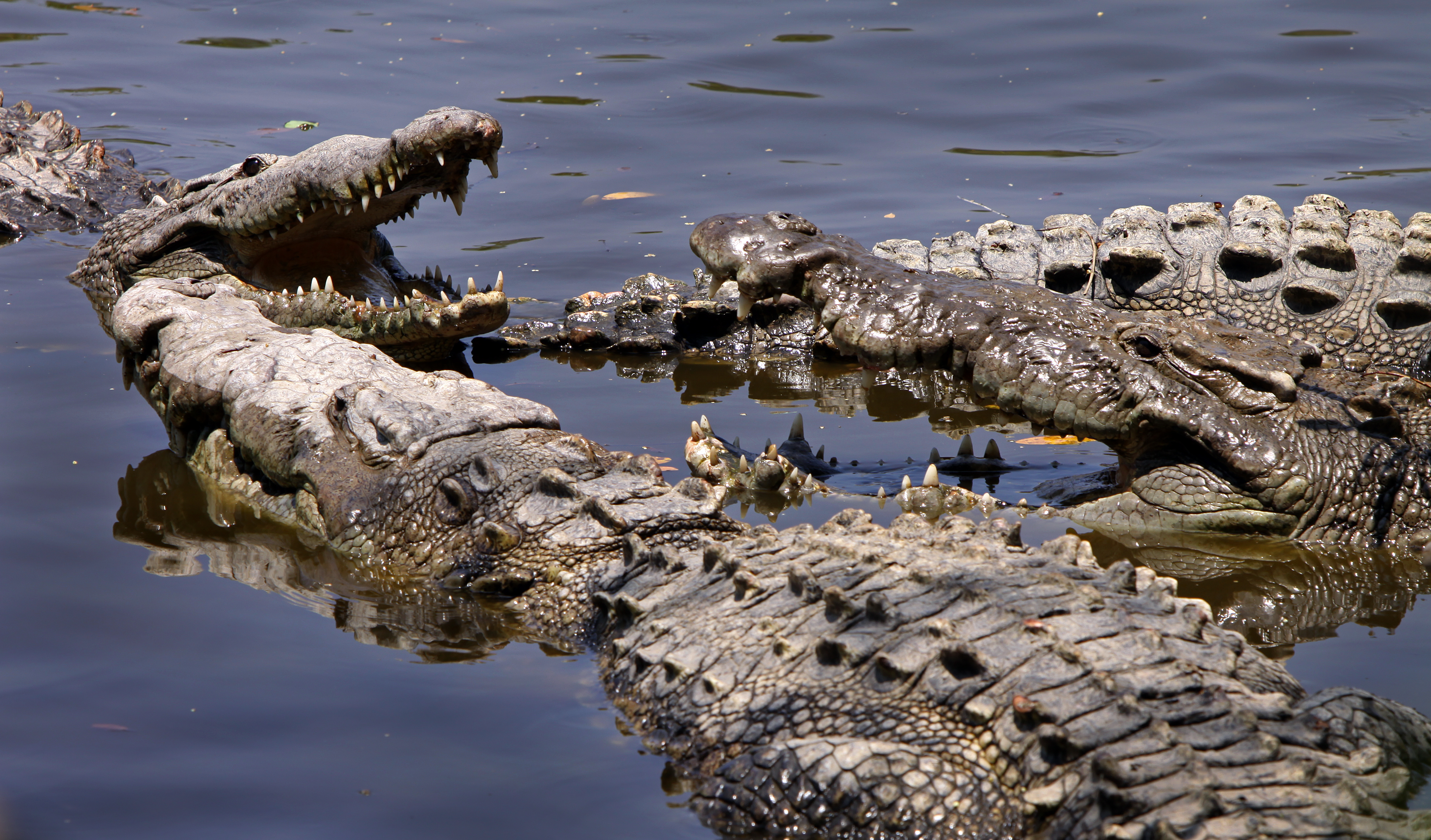 American crocodiles basking at a swamp in La Manzanilla, in the state of Jalisco, Mexico. The swamp is about 180 hectares and has a population of approximately 300 crocodiles. The swamp is a protected sanctuary for wildlife, including crocodiles and birds.